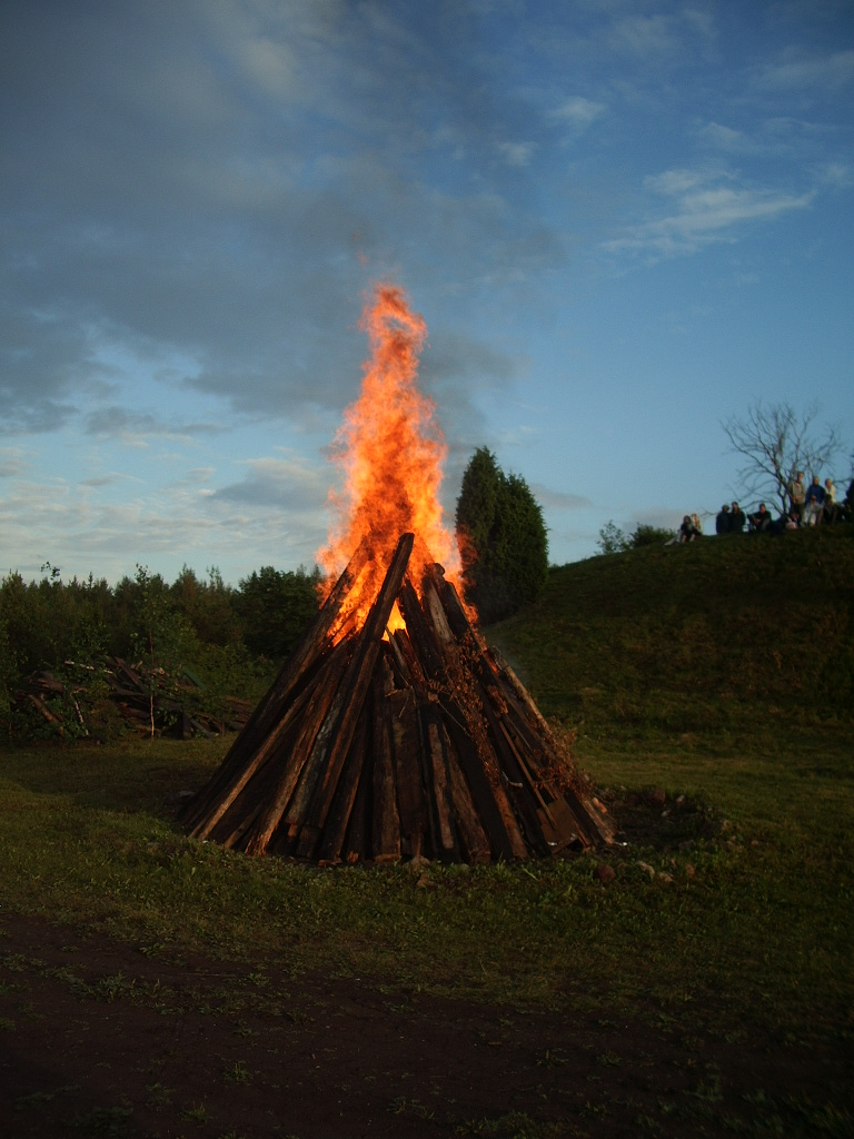 Midsummer bonfire in Valjala hill fort